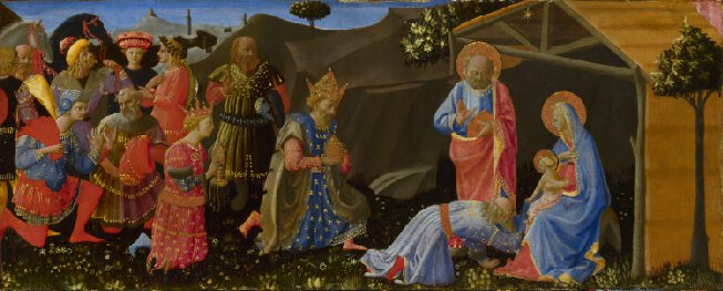 The Adoration of the Kings, about 1433–4 Medium and support: Egg tempera on wood Dimensions: 19 x 47.4 cm Bought, 1857 Inventory number: NG582